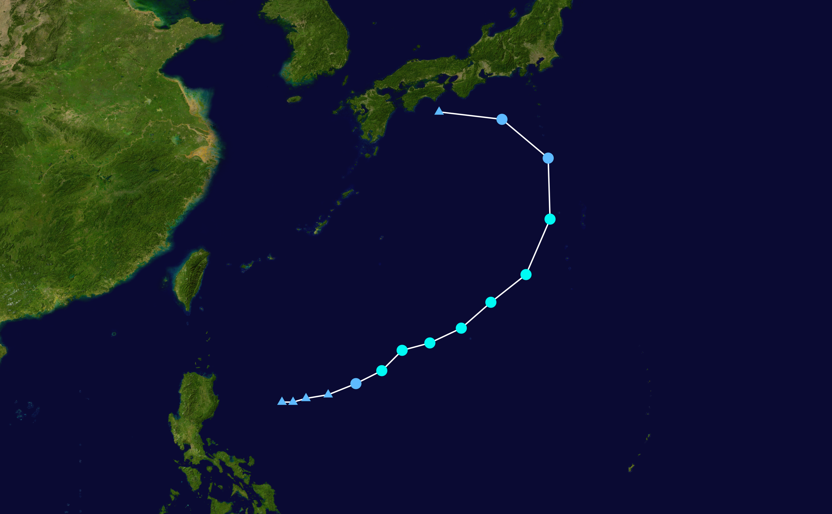 Tropical Storm Sonamu (2006) track. Uses the color scheme from the Saffir-Simpson Hurricane Scale.